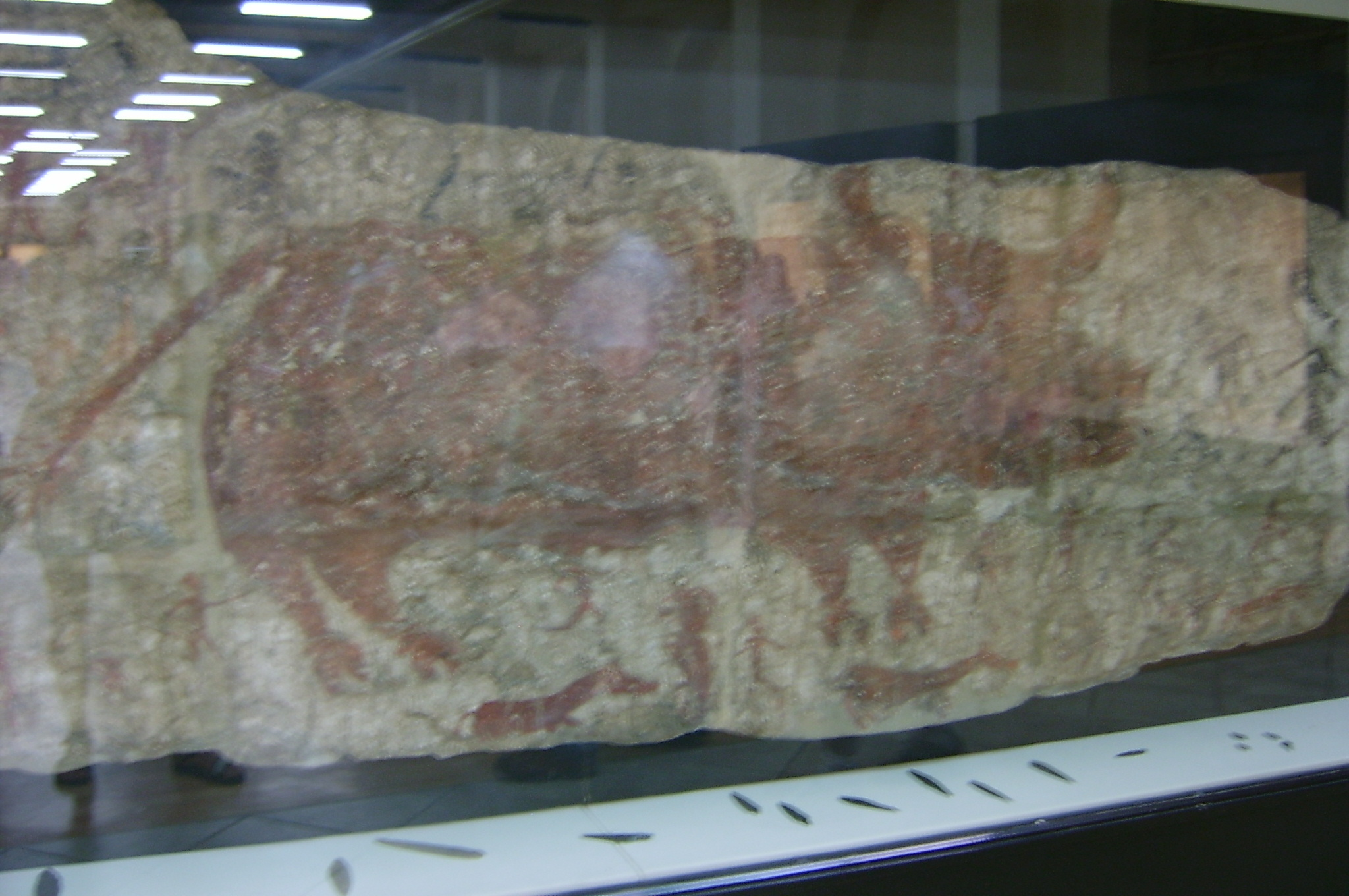 Bull painting from Catal Hüyük in Angora Museum